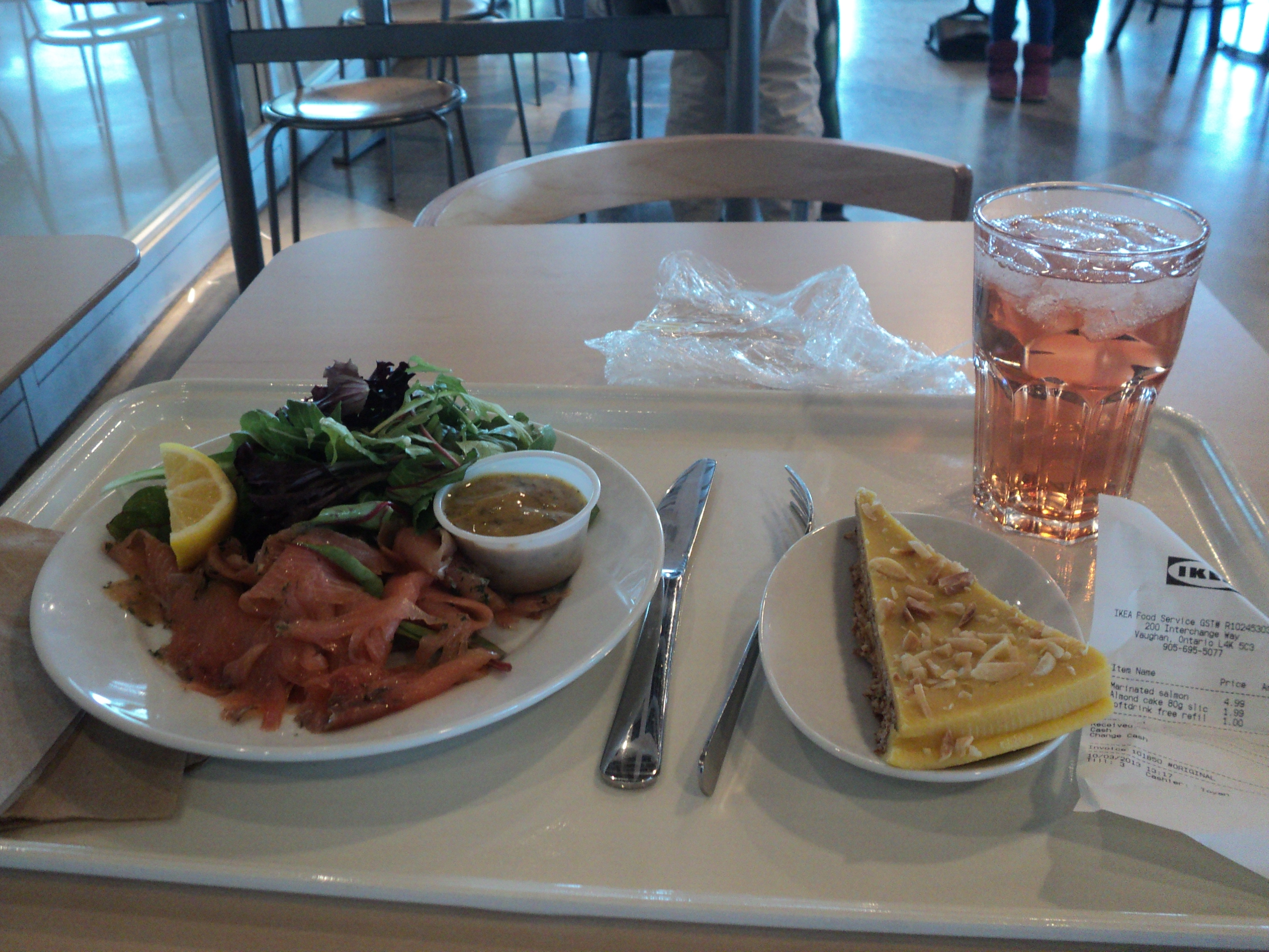 Gravad Lax, lingonberry juice and almond tort. Yummy